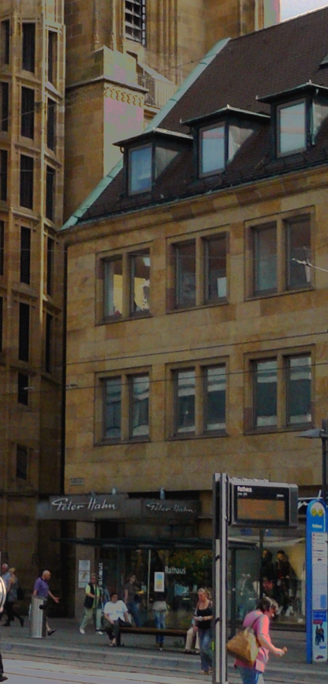 x